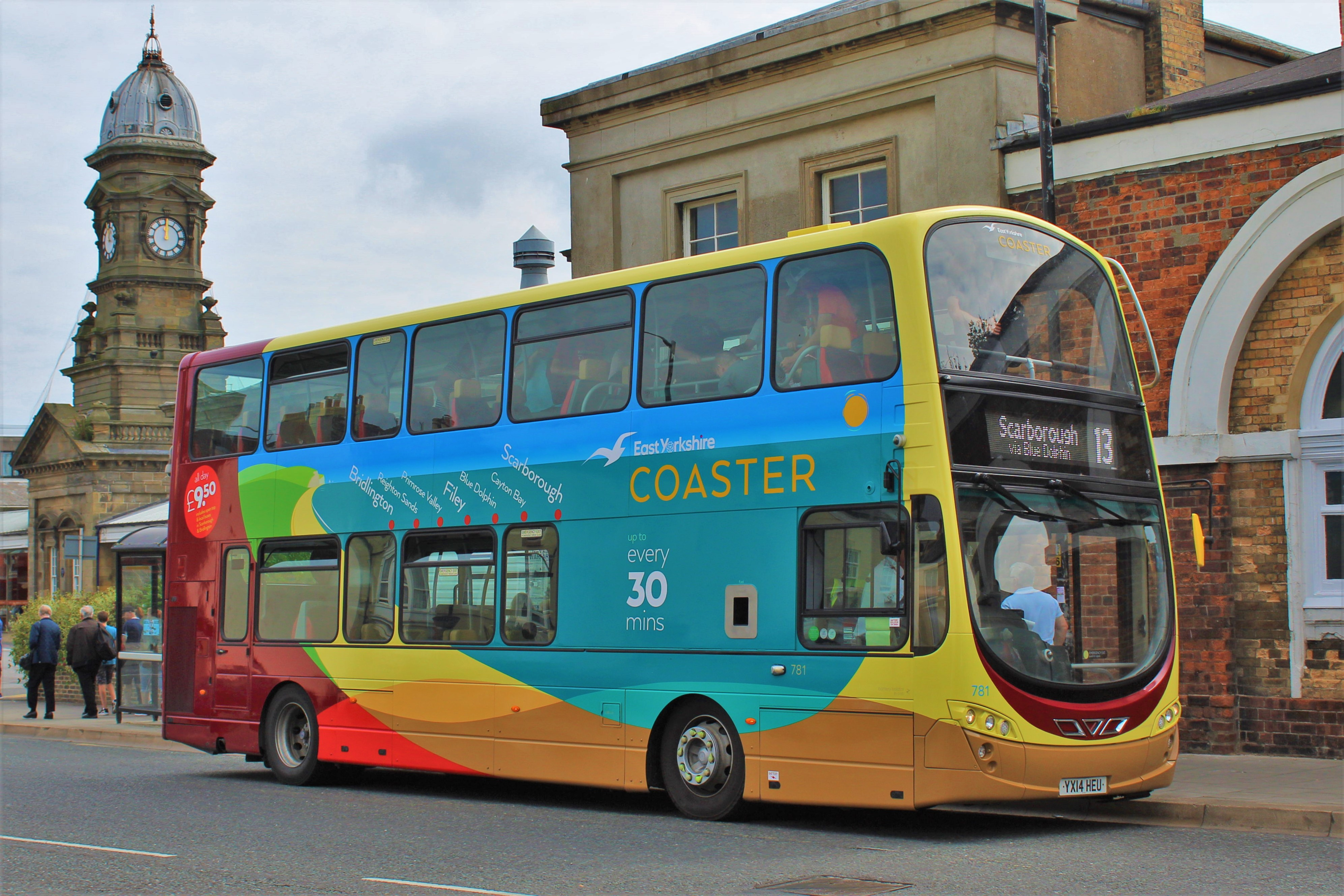 YX14 HEU (781), a 2014 Volvo B9TL / Wright Eclipse Gemini 2 operated by the Go-Ahead Group-owned East Yorkshire bus company subsidiary Scarborough Locals and branded for the East Yorkshire Coaster service, seen picking up passengers outside Scarborough railway station.